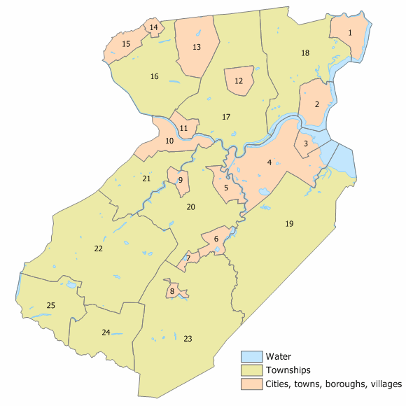 Original work by Jim Irwin, December 2005.